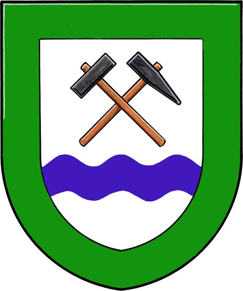 Municipal coat of arms of Fryšava pod Žákovou horou village, Žďár nad Sázavou District, Czech Republic.